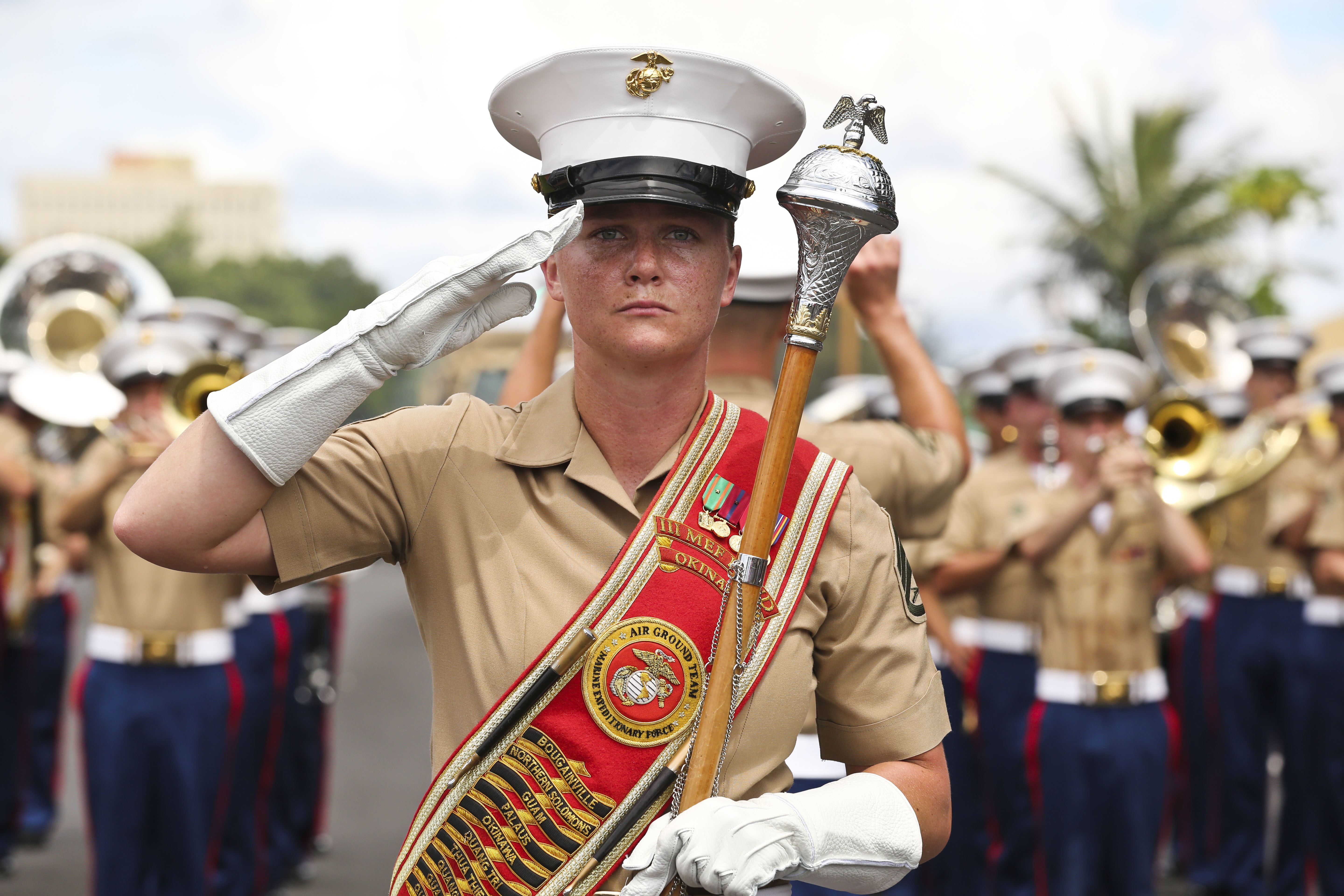 Staff Sergeant Kady Miller leads the III Marine Expeditionary Force Band in the 75th Anniversary Liberation of Guam Parade in Hagatna, Guam in July 2019. She is pictured in Blue Dress D uniform with ceremonial drum major baldric and holding a drum major mace in left hand while saluting with the right. Prior to upload, file was modified from original through slight cropping to center the principal subject, and white balancing.